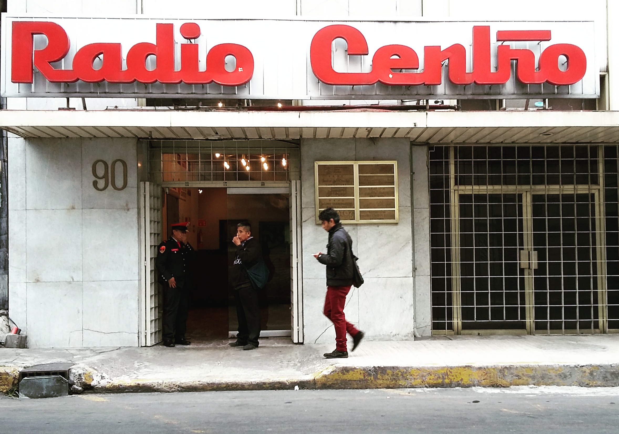 The Grupo Radio Centro building (formerly headquarters) at Artículo 123 No. 90 in Mexico City